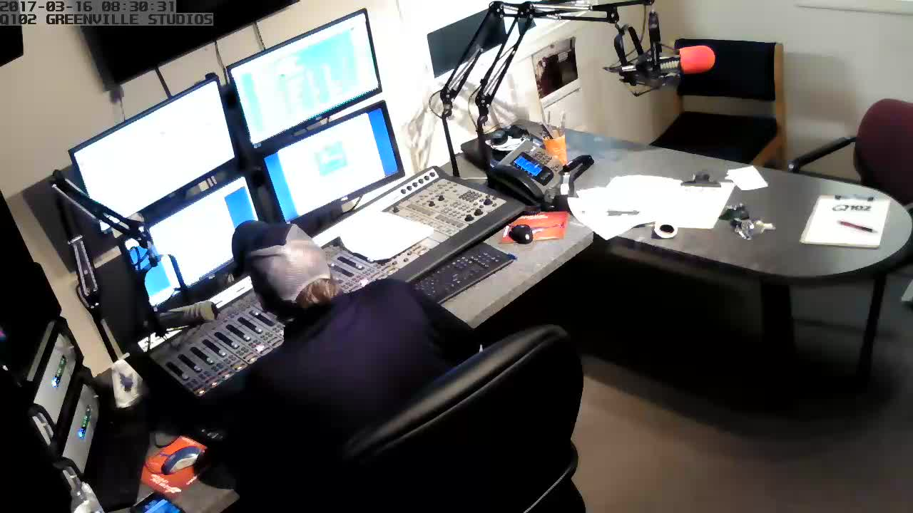 The Studio for WIQQ "Q102" in Greenville ,Mississippi on Thursday, March 16th, 2017